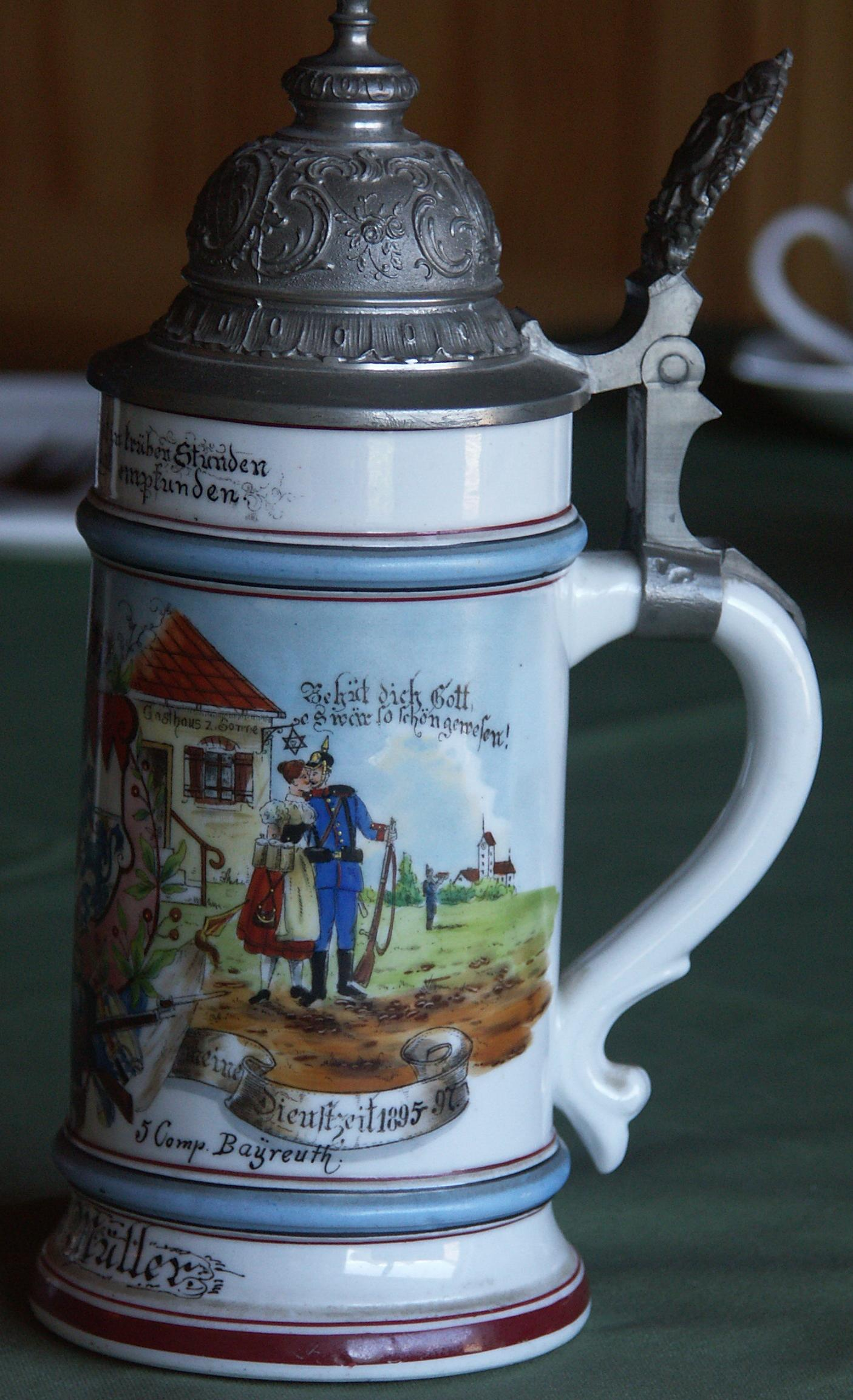 Beer stein for retiring soldier, 1897, Germany